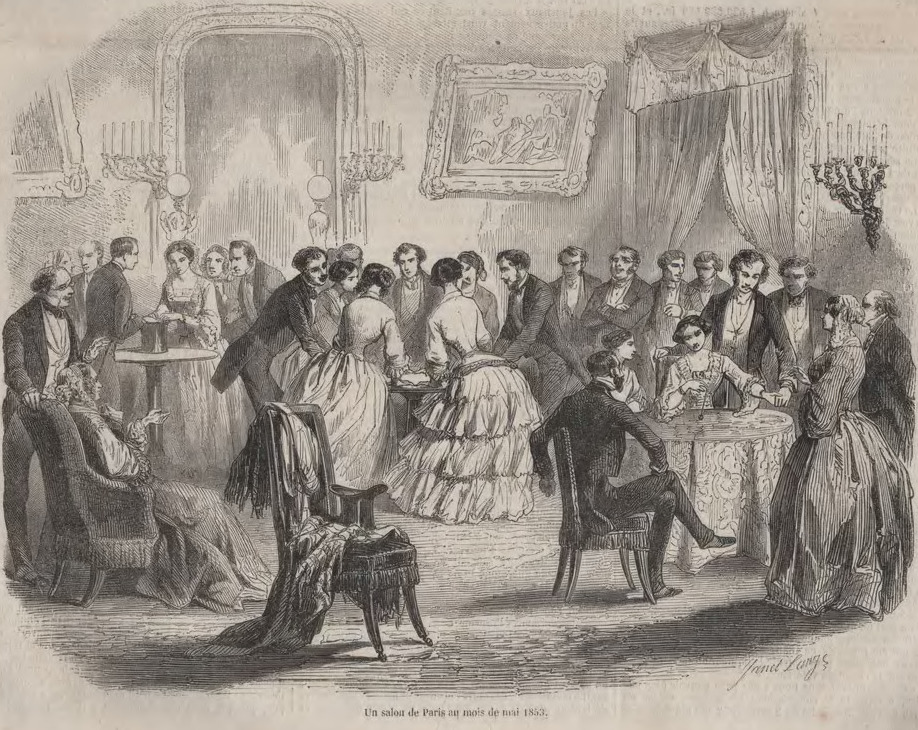 Journal L'Illustration from 14 May 1853.